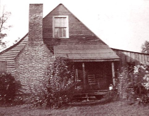 The home of Col. George Waller, pioneer settler of Henry County, Virginia, photograph taken in 1930. The Waller plantation, located at Waller's Ford (later renamed Fieldale), was the drilling area for the local militia before the Revolutionary War. (Retouched by MamadukePercy)